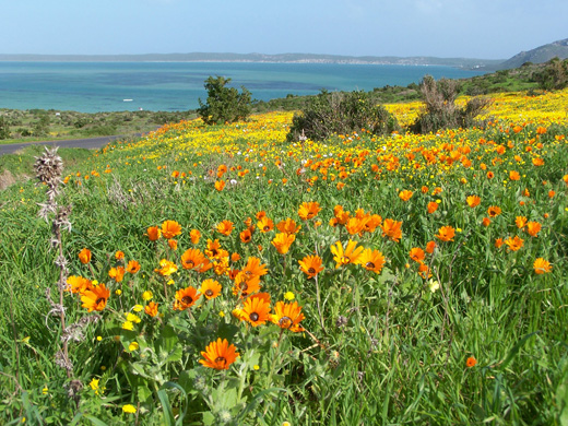 A field of flowers in the West Coast National Park in South Africa.